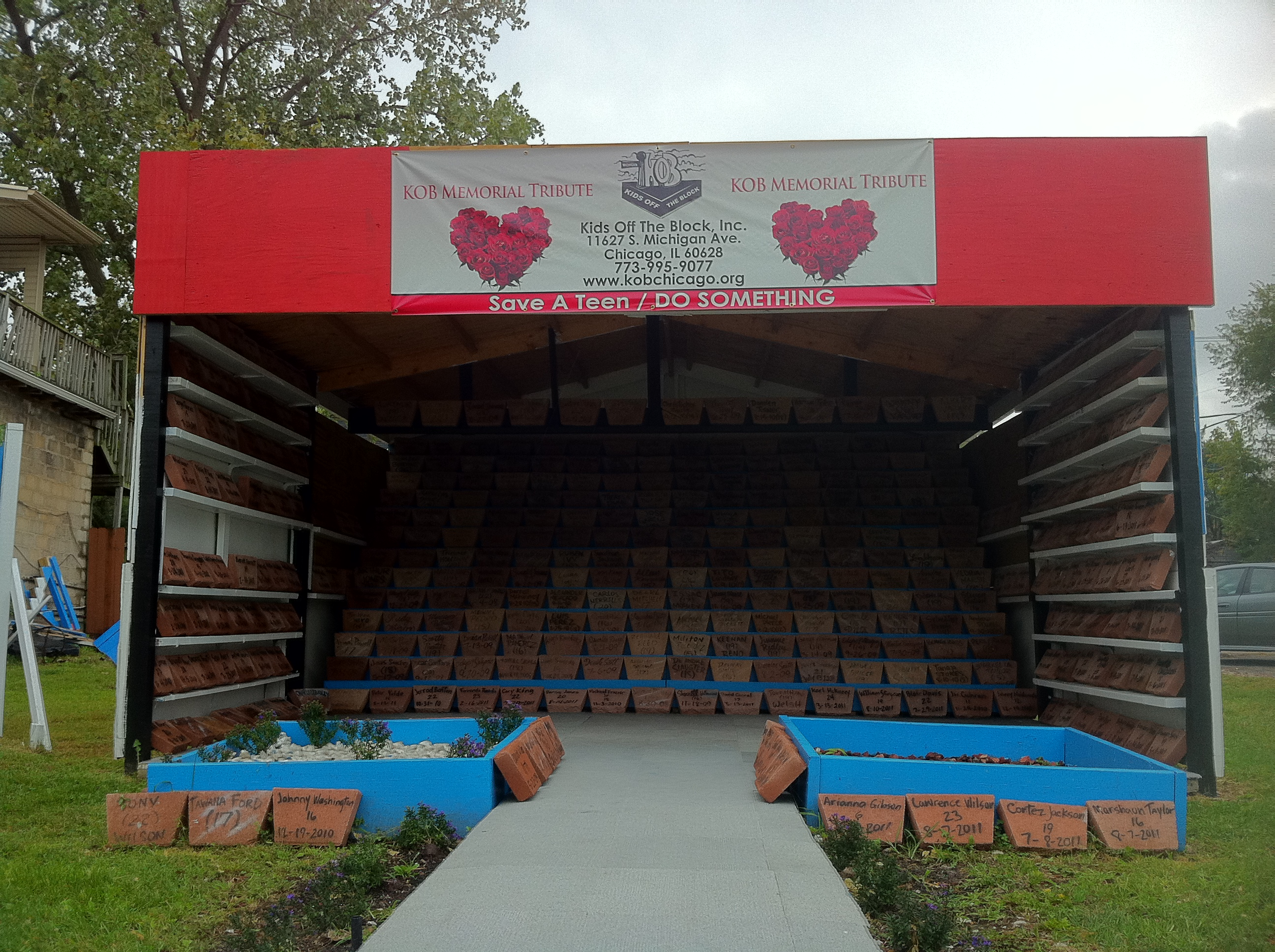 Kids off the Block Rocks in grass